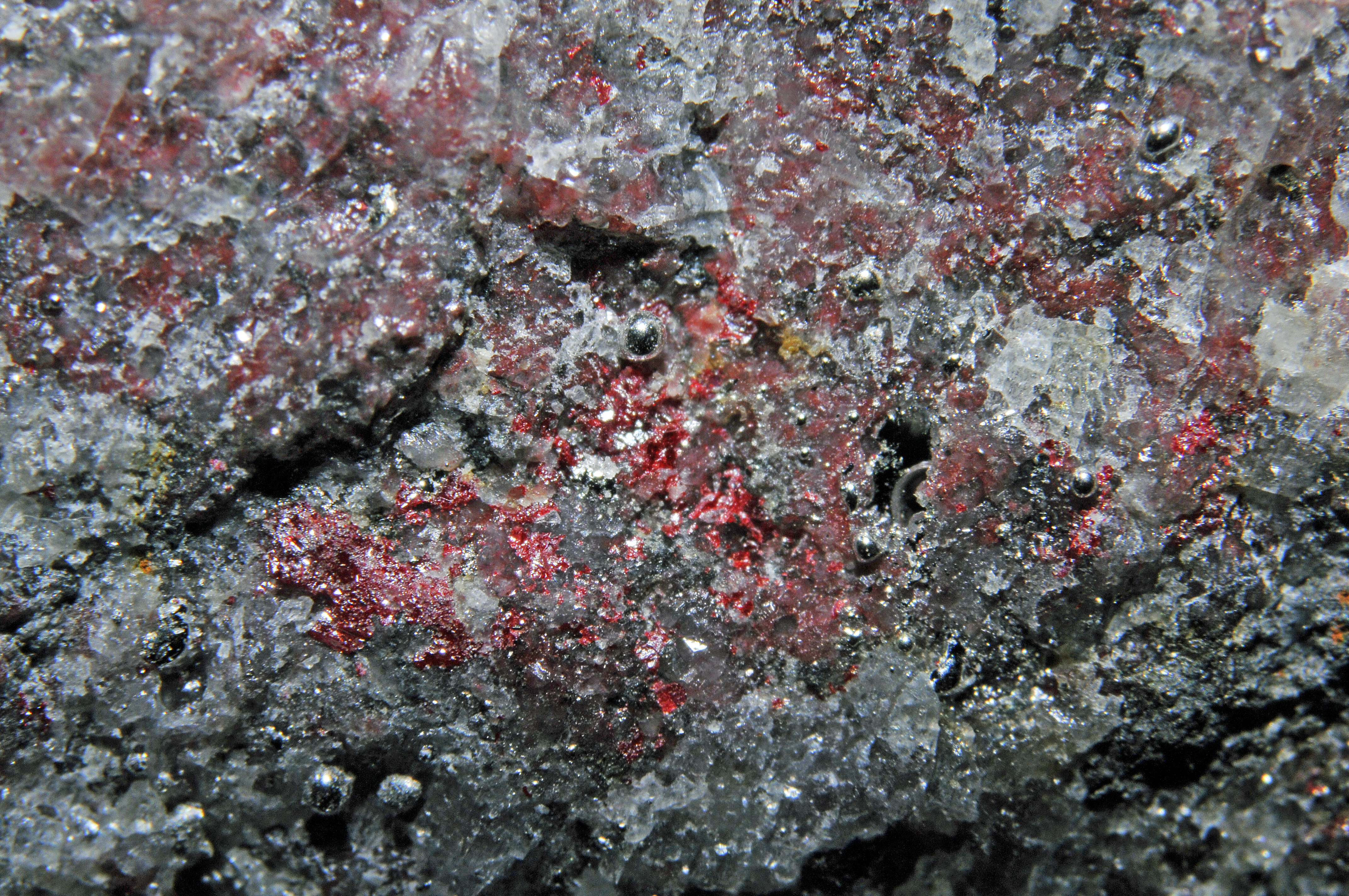 droplets or globules of native mercury, crystals of cinnabar : New Idria Mine (New Idria group ; New Hope vein), Idria (New Idria), New Idria District, Diablo Range, San Benito Co., California, USA